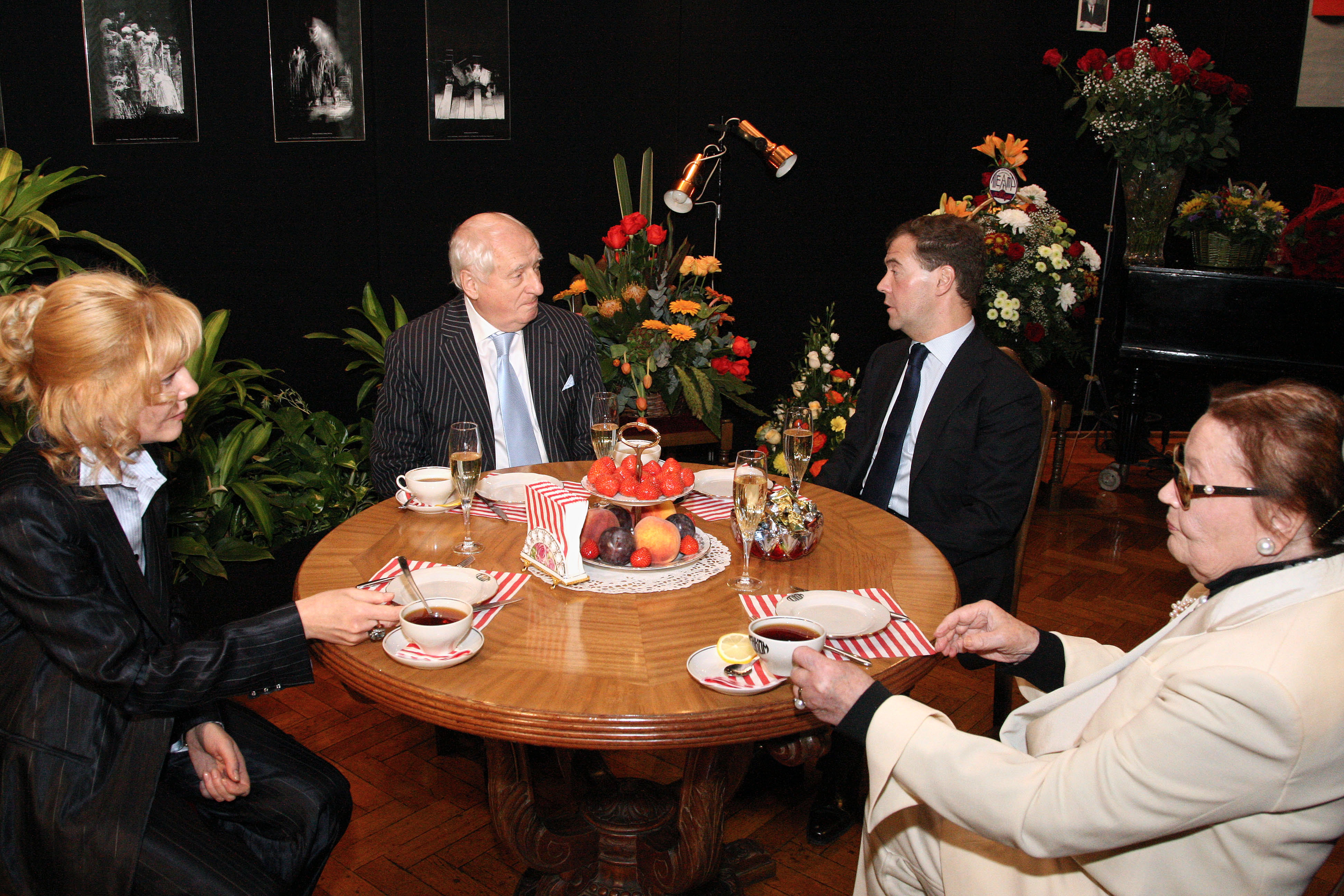 LENKOM THEATRE, MOSCOW. With Lenkom theatre's artistic director Mark Zakharov (on the left), his daughter actress Alexandra Zakharova and wife Nina Lapshina.